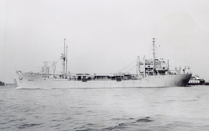 The Courier underway, still in gray paint ca. 1955